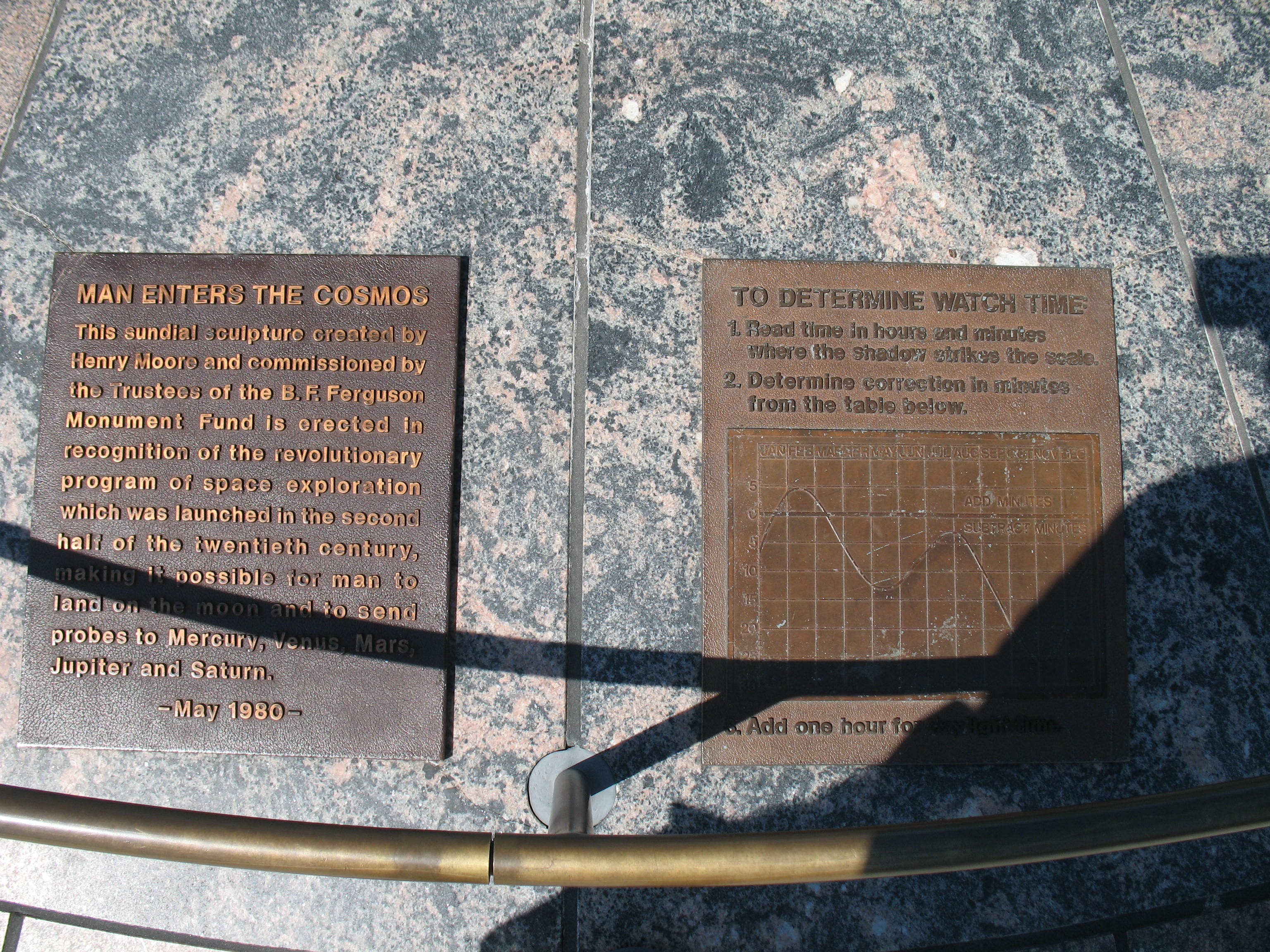 Man Enters the Cosmos Explanatory Plaques by Henry Moore